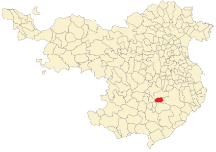 Llambilles